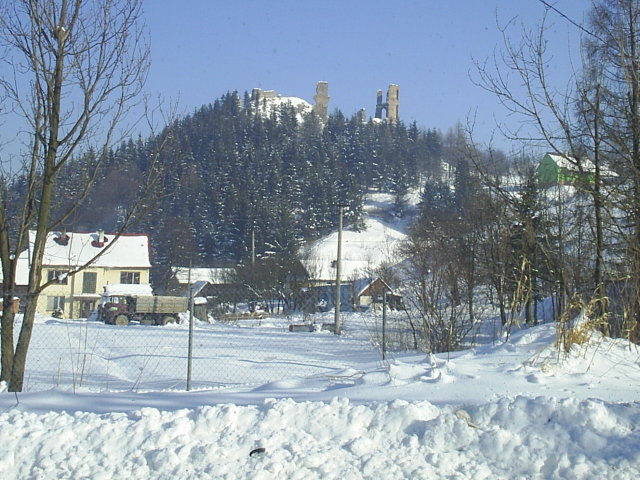 Plaveč Castle